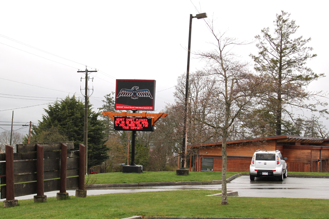 Opened in 1989, LÁU,WELNEW Tribal School serves about 185 students, Nursery (Preschool) to Grade 9 and provides adult education.